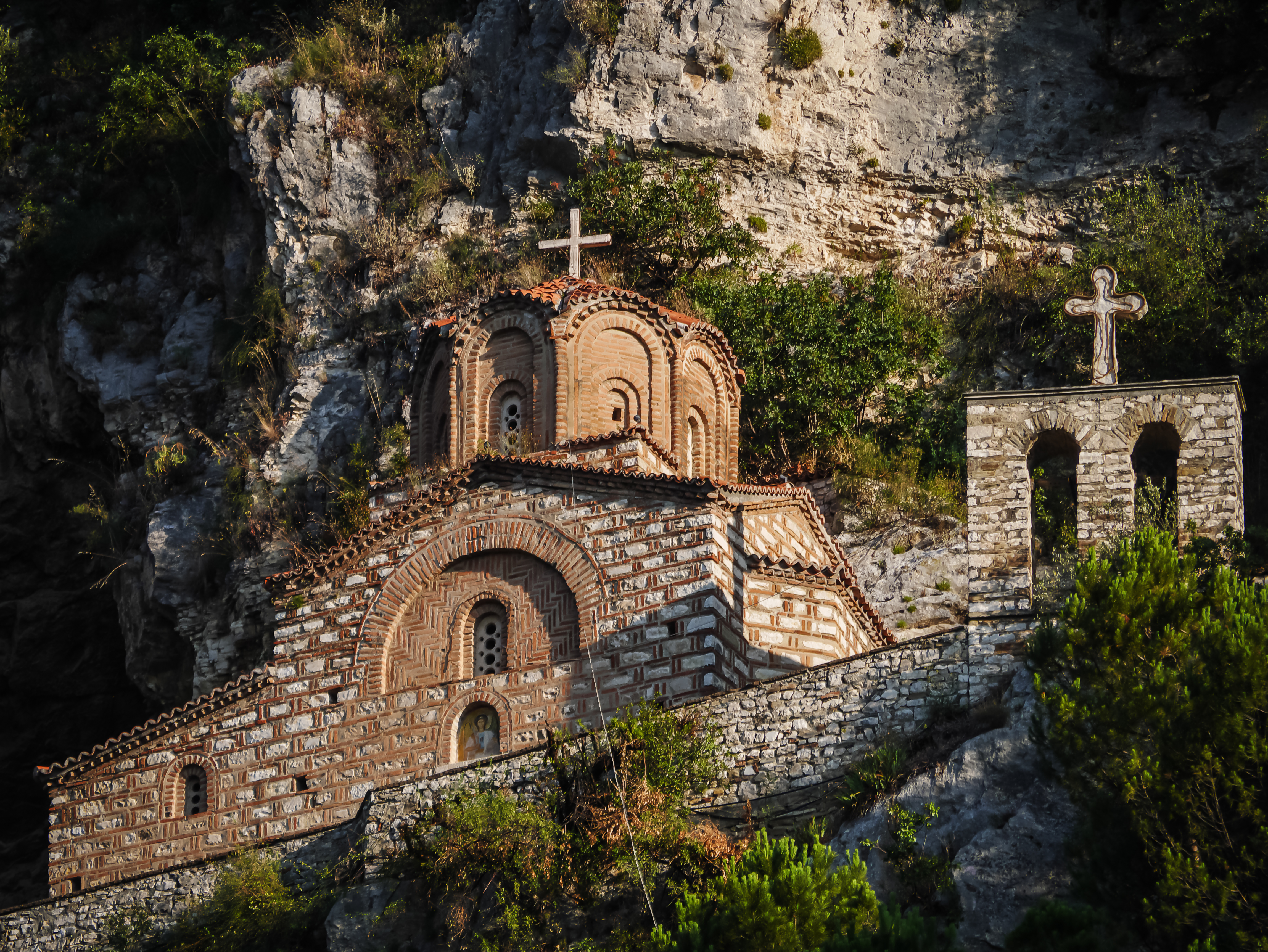 City of Berat Albania 2016 UNESCO